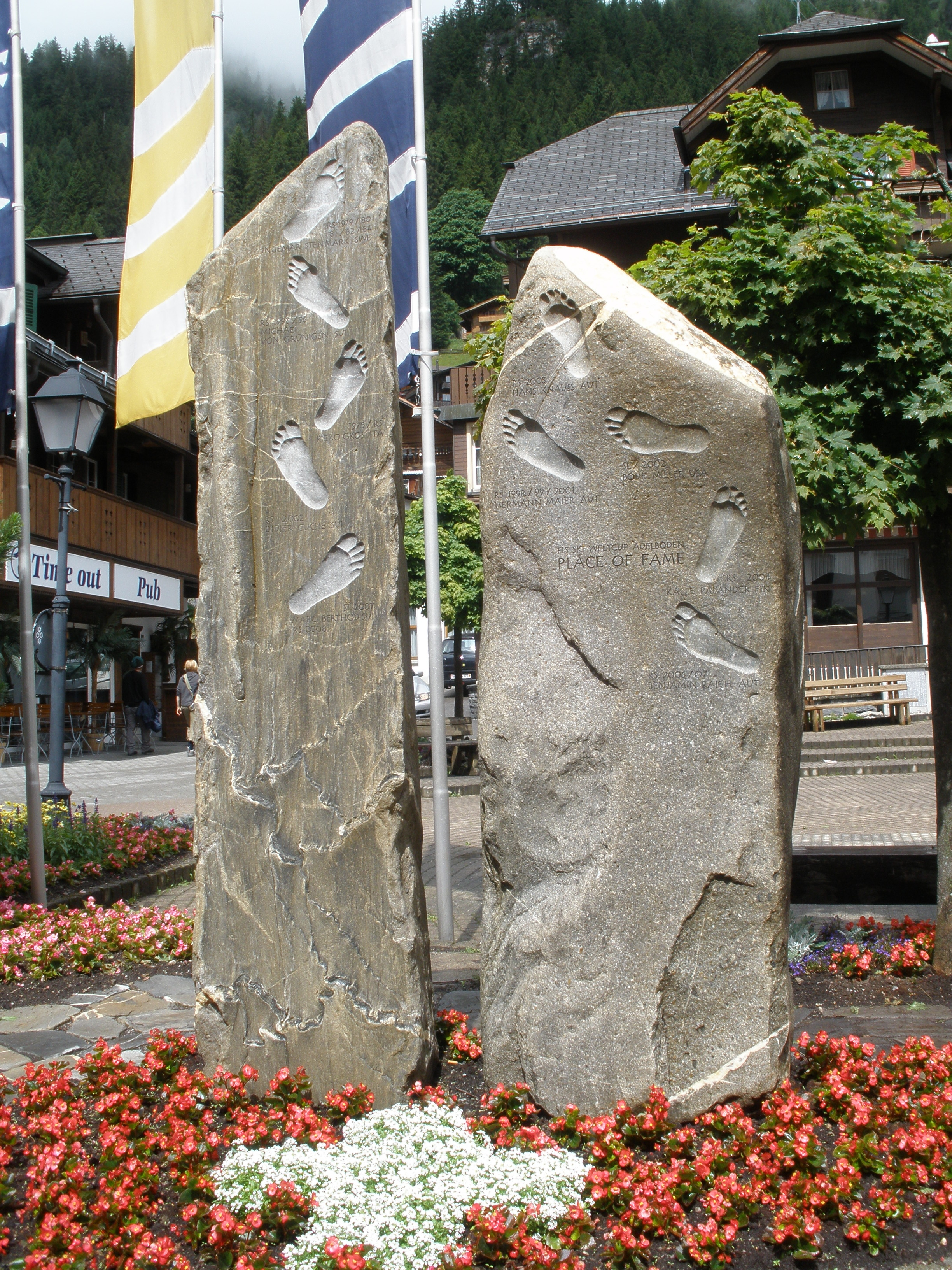 Monument with the footprints of the winners of the Chuenisbärgli giant slalom in Adelboden, Switzerland